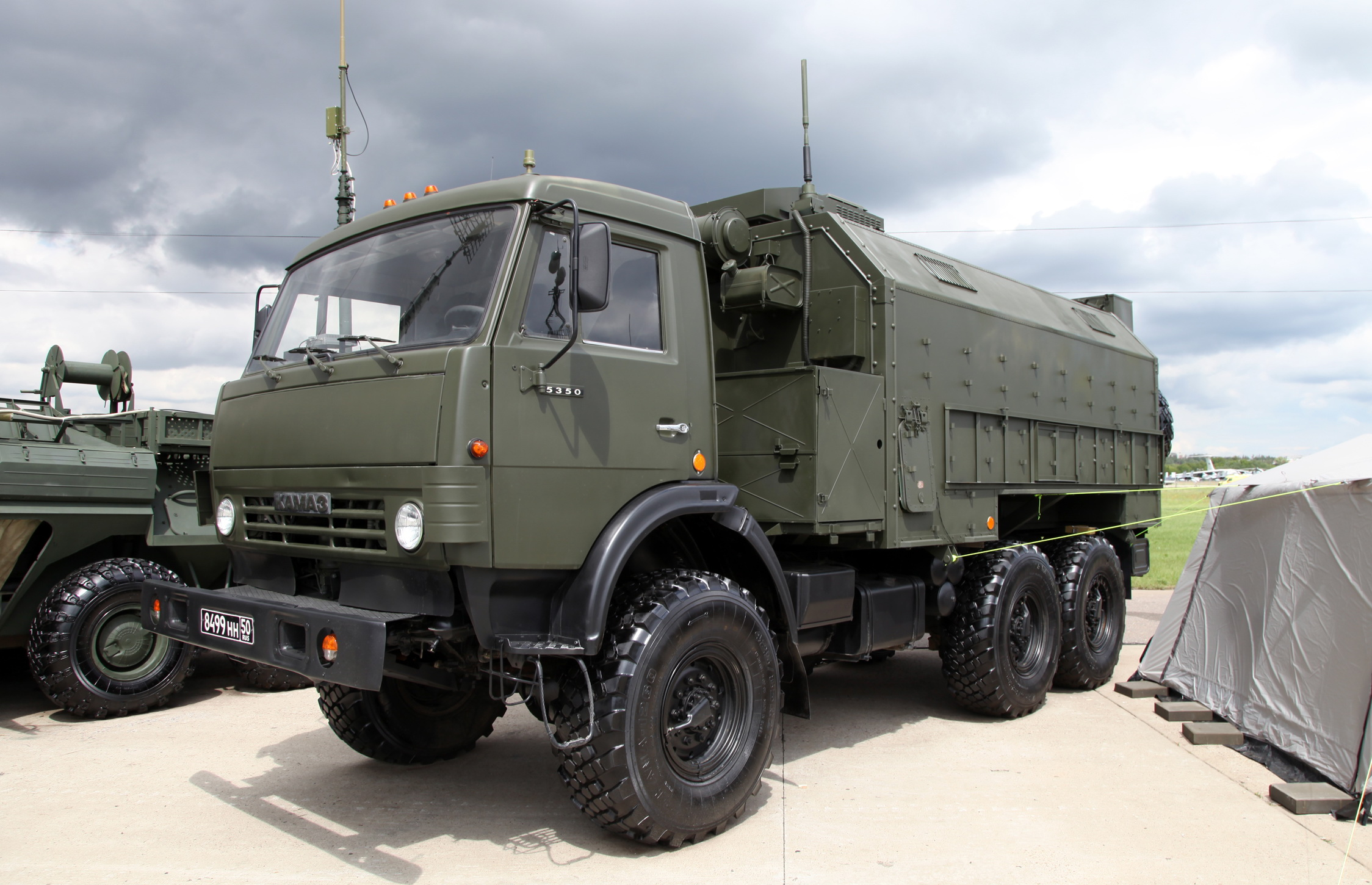 Russian combined radiostation «R-142NMR», in order to provide C3 on tactical level, autonomous or in automated C3 system (ASUV TZ).